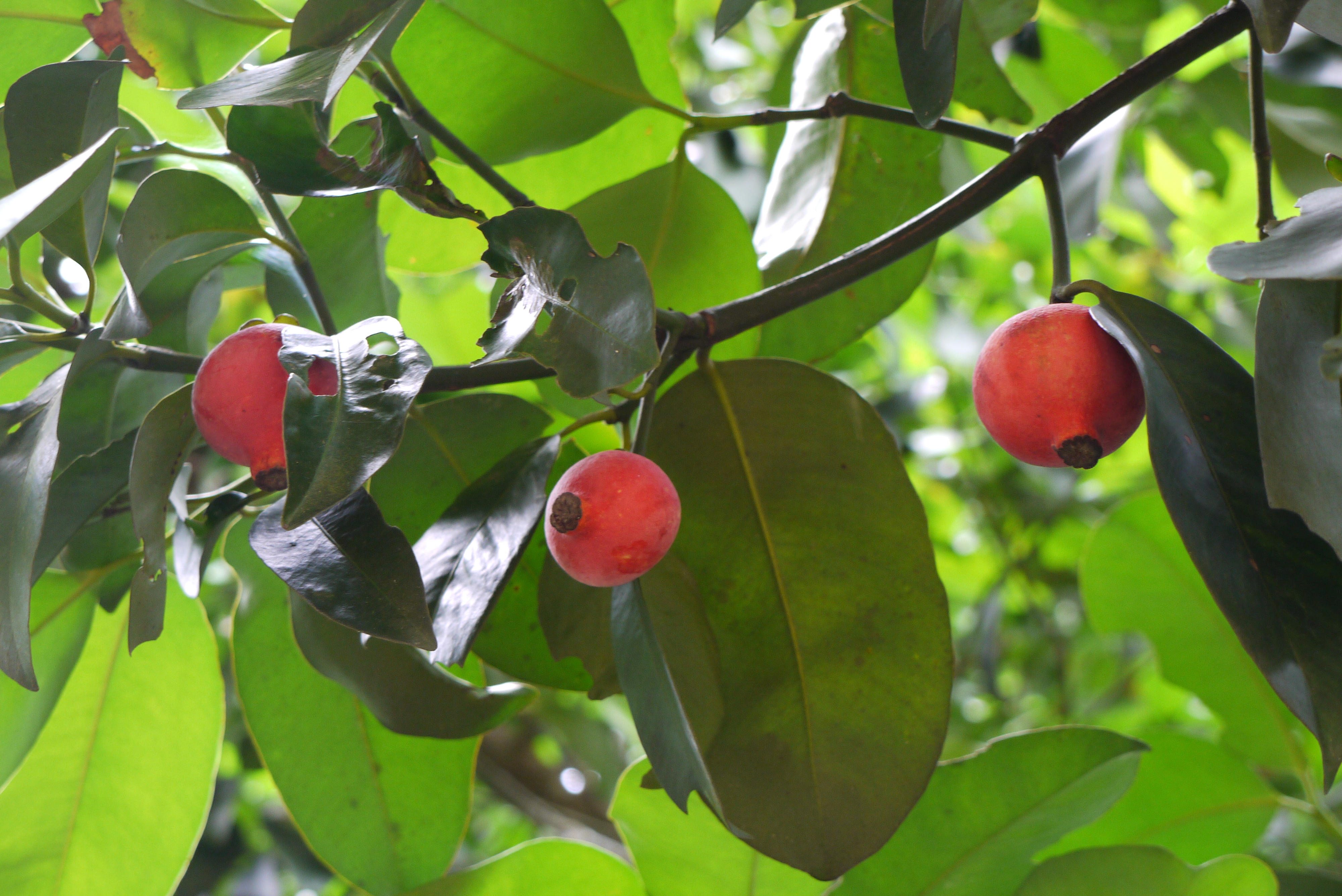 Native to Malaysia, known as "beruas" in Malay and common name - seashore mangosteen. The exocarp (peel) is in rose-red, which is different from the well-known purple mangosteen. Locality: MARDI native fruit field genebank.